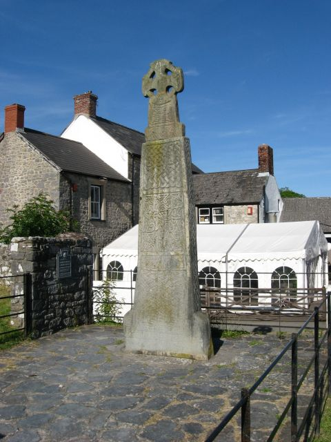 The Carew Cross The building behind is the Carew Inn public house.